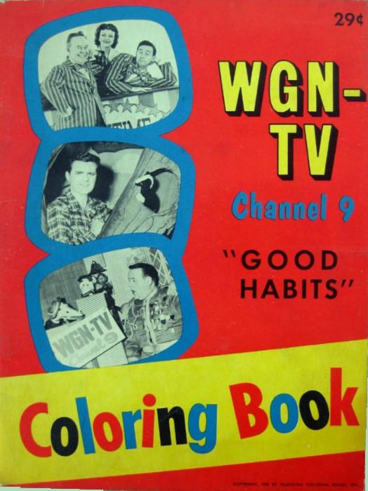 WGN-TV "Good Habits" Coloring Book-front cover. The book was done for WGN-TV's schedule of children's television shows in 1959. The shows pictured on the cover each had a page in the book. A copyright search on the following turned up no renewals related to this material: Television Coloring Books WGN-TV There is no evidence any copyrights on this material were renewed, thus there was no attempt to maintain this protection for this item.